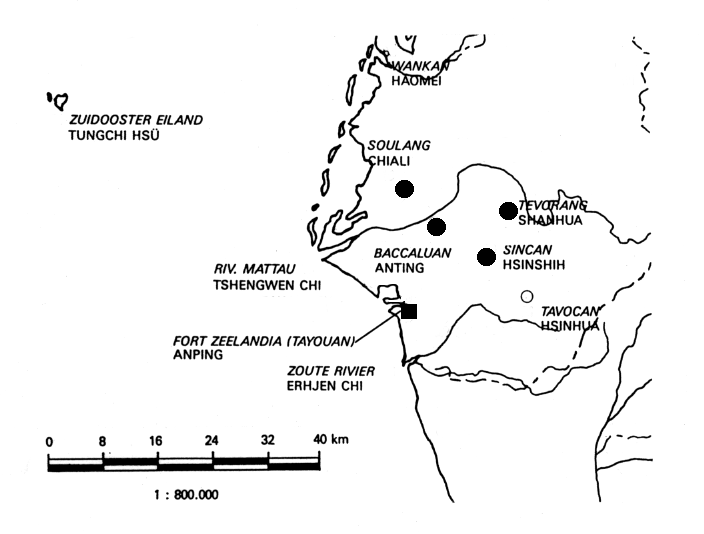 Map of the Dutch fort Zeelandia and its surroundings on Taiwan (17th century)